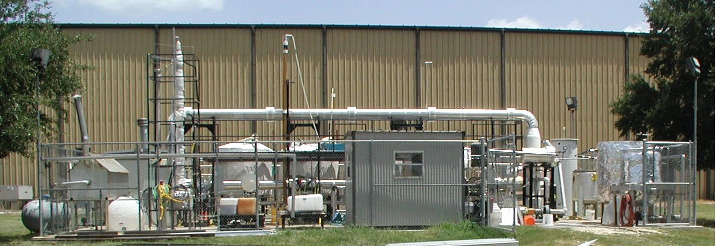 Cesar Granda, MixAlco process Pilot Plant.